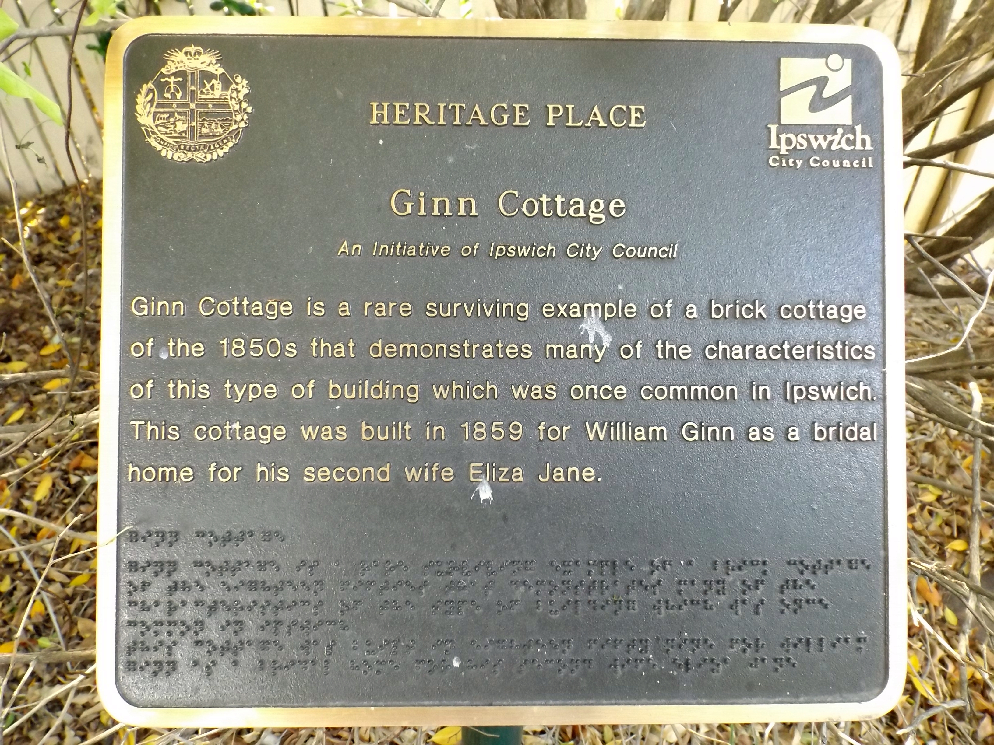 Photo of a plaque at Ginn Cottage in Ipswich, Queensland, Australia.